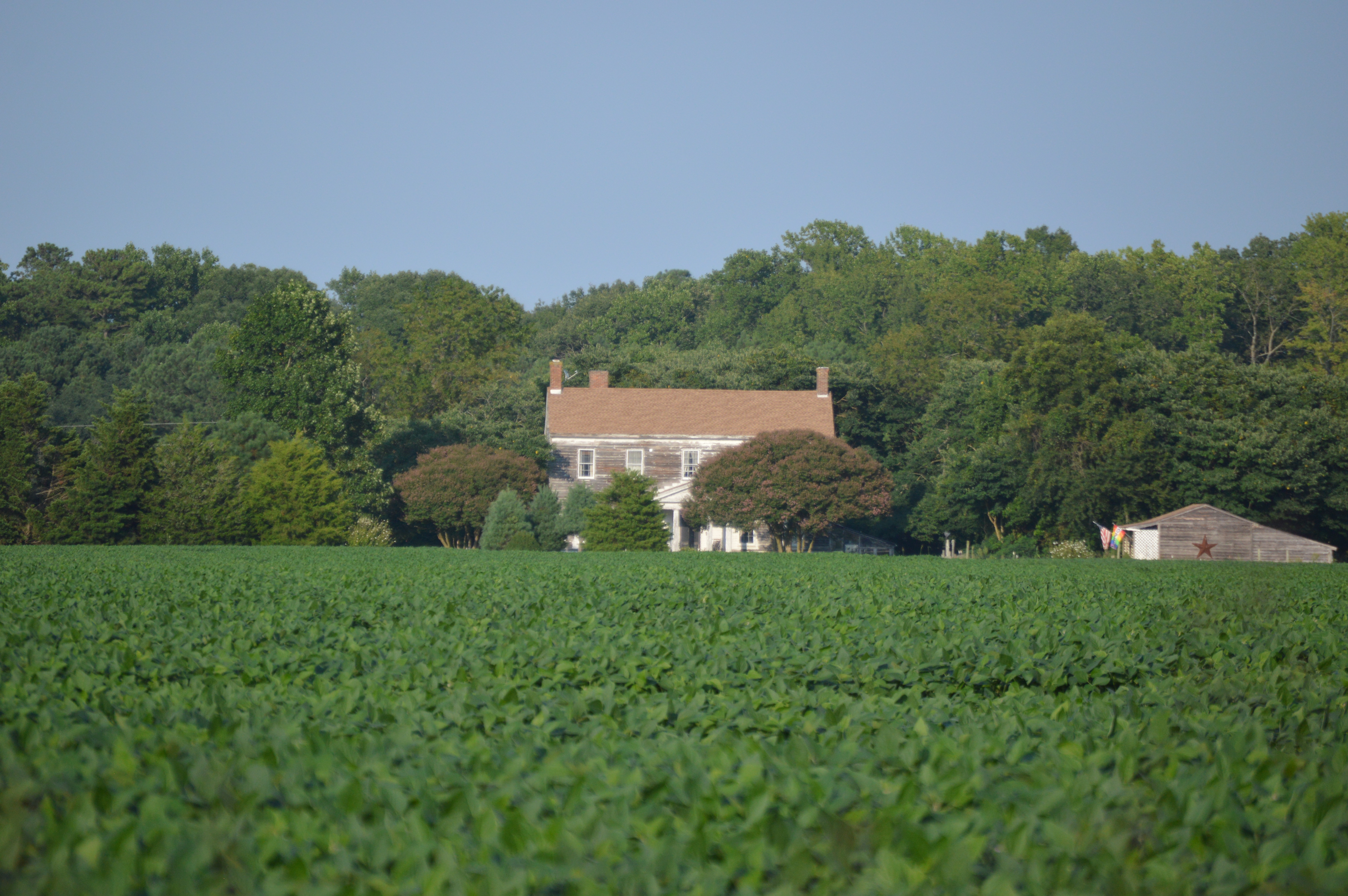 Distant view (from the west) of Locustville, located on Slabtown Road southeast of Ottoman in southern Lancaster County, Virginia, United States. Built in 1855, it is listed on the National Register of Historic Places.